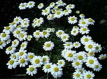 Sicilian botanical endemisms Anthemis aetnensis